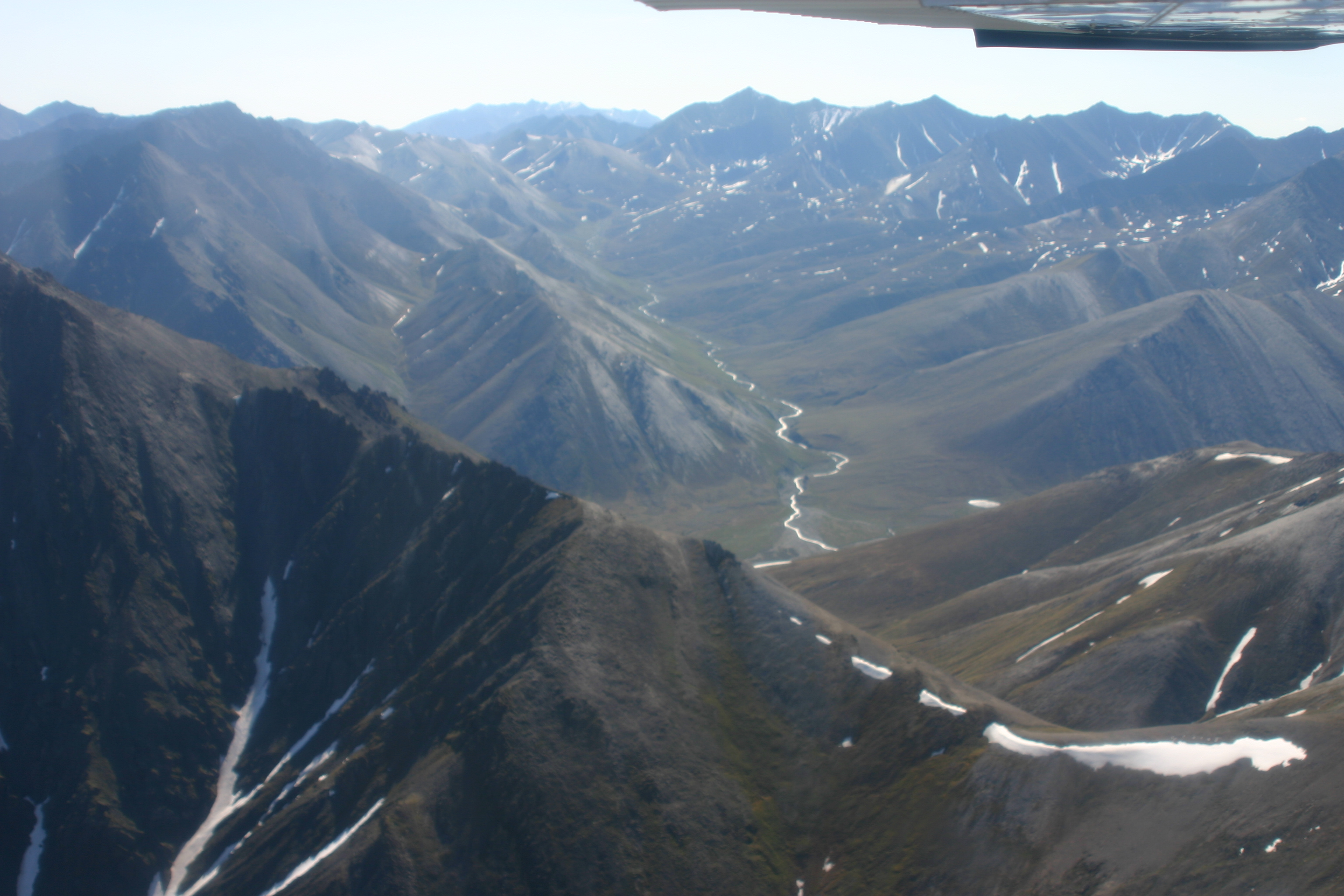 Over the Brooks Range